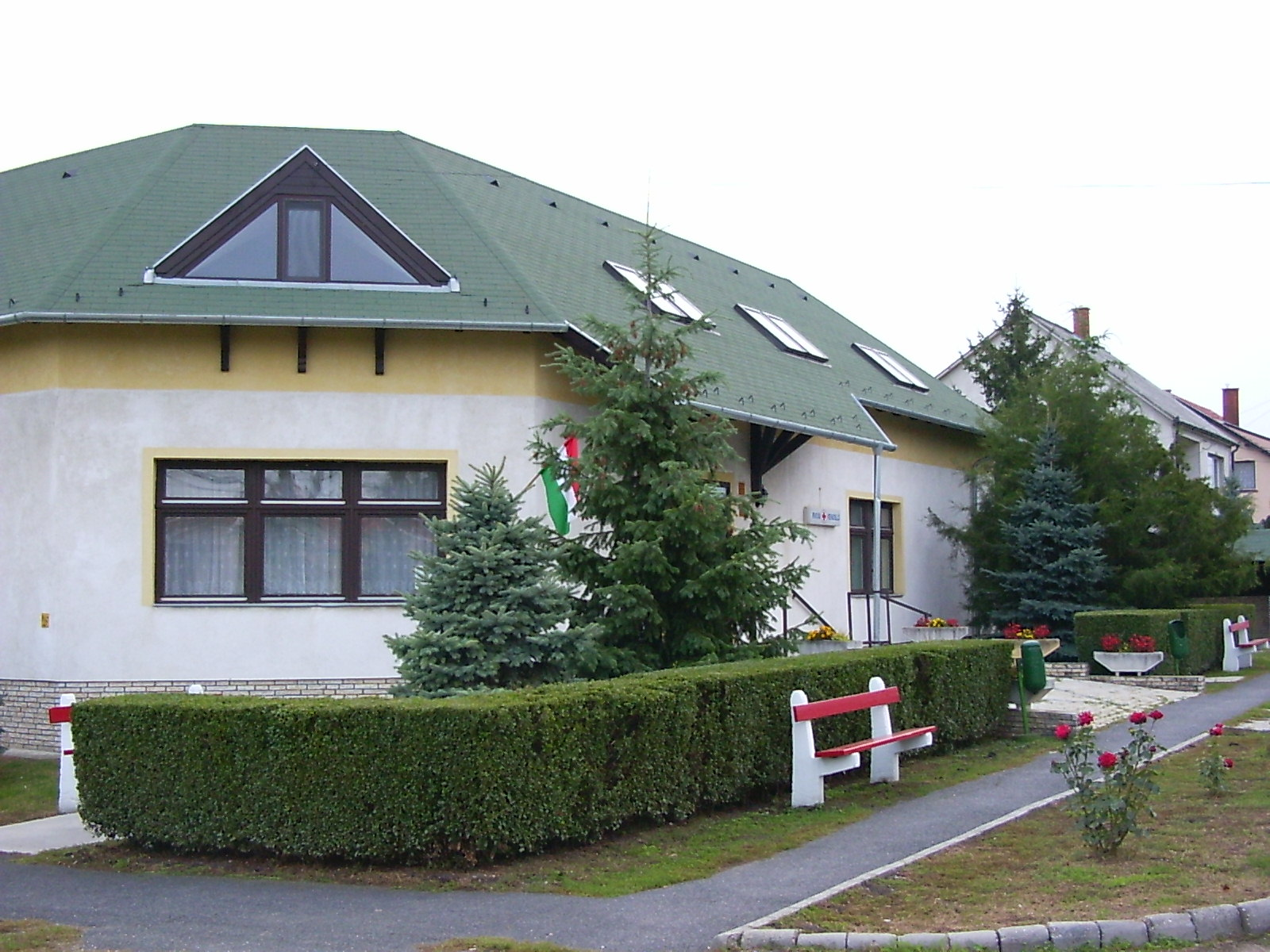 Babót, medical office